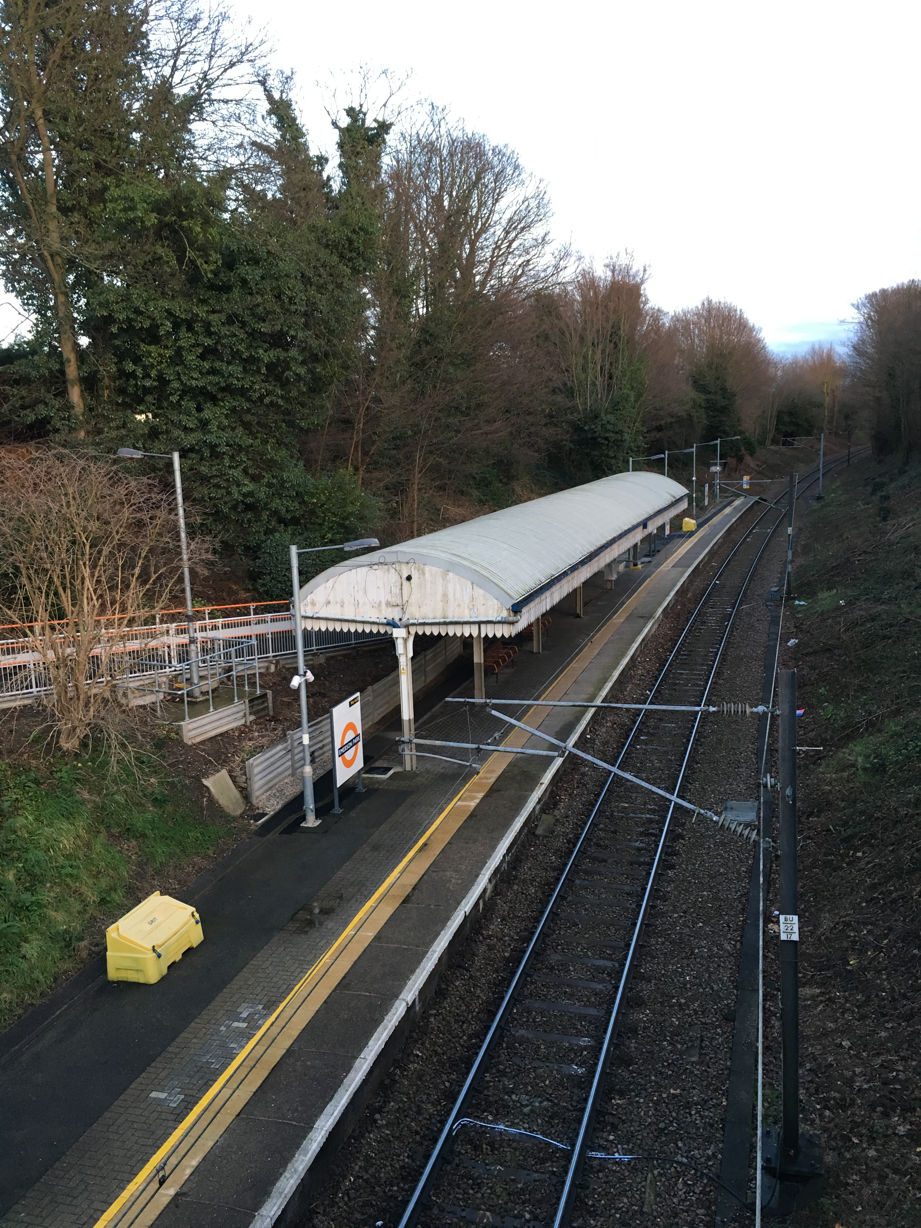 Emerson Park station, January 2018